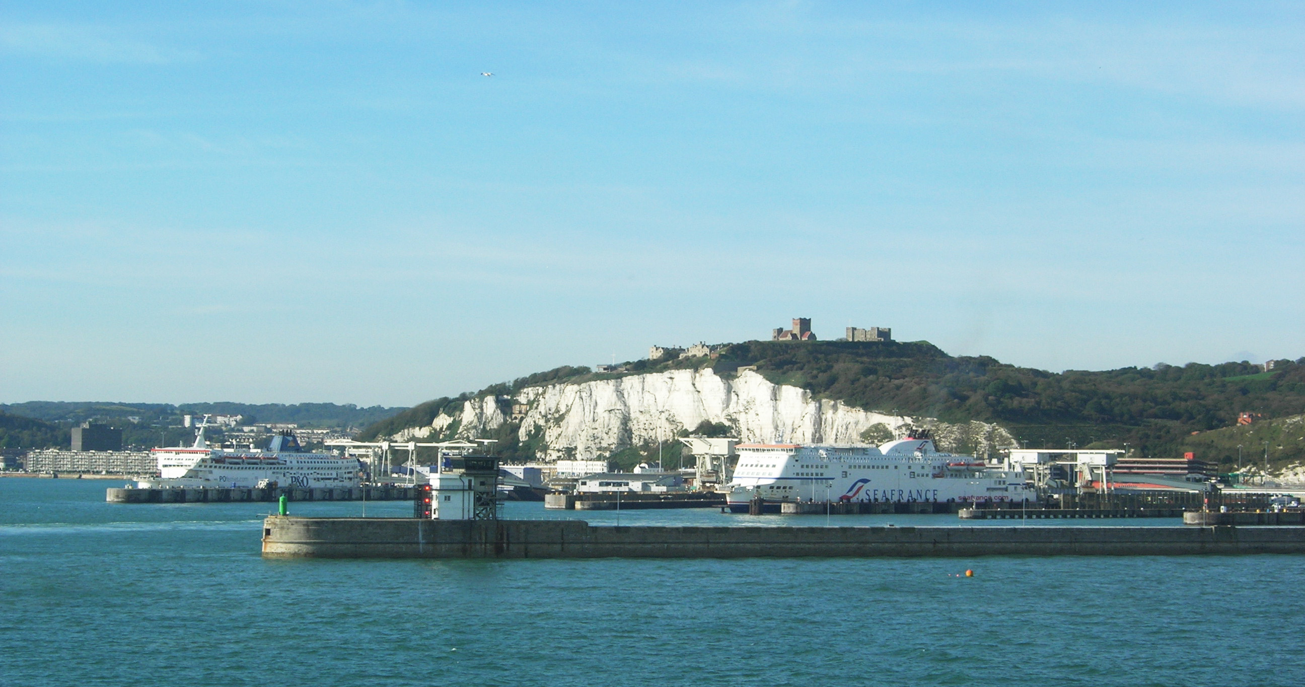 Description =Port de Douvres Source =Photo taken by Remi Jouan Date =Novembre 2006 Author =Remi Jouan